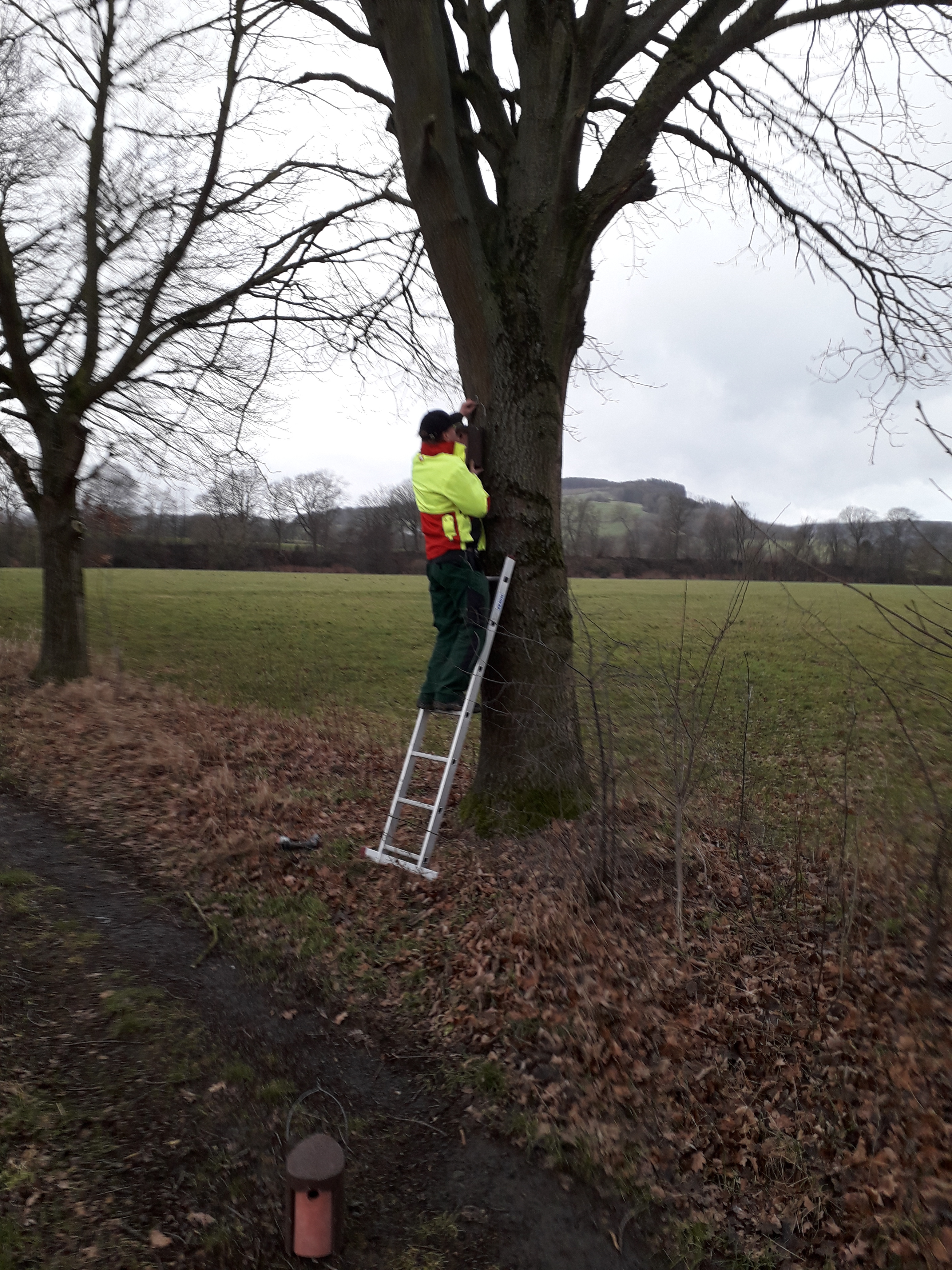 Nesting box campaign of the association for nature and bird protection in the Hochsauerland district for Eurasian tree sparrow (Passer montanus montanus) in the "Landscape Conservation Area Ruhrtal and Wennetal near Wennemen", where six boxes were hung.